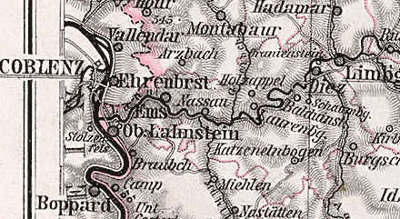 Detail from a map of Hesse.